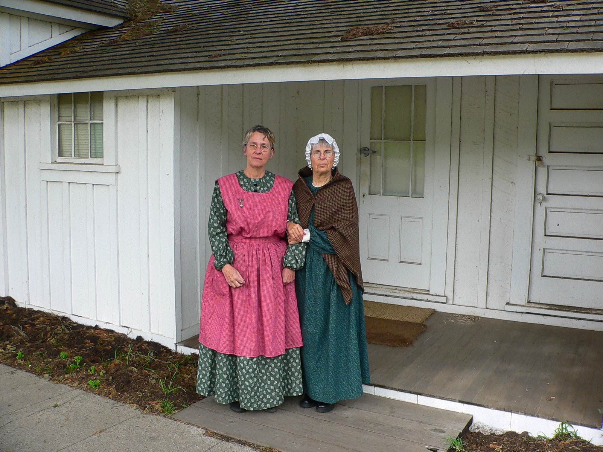 Pecho Ranch Women. Montana de Oro State Park Living History Program - Spooner Ranch House.